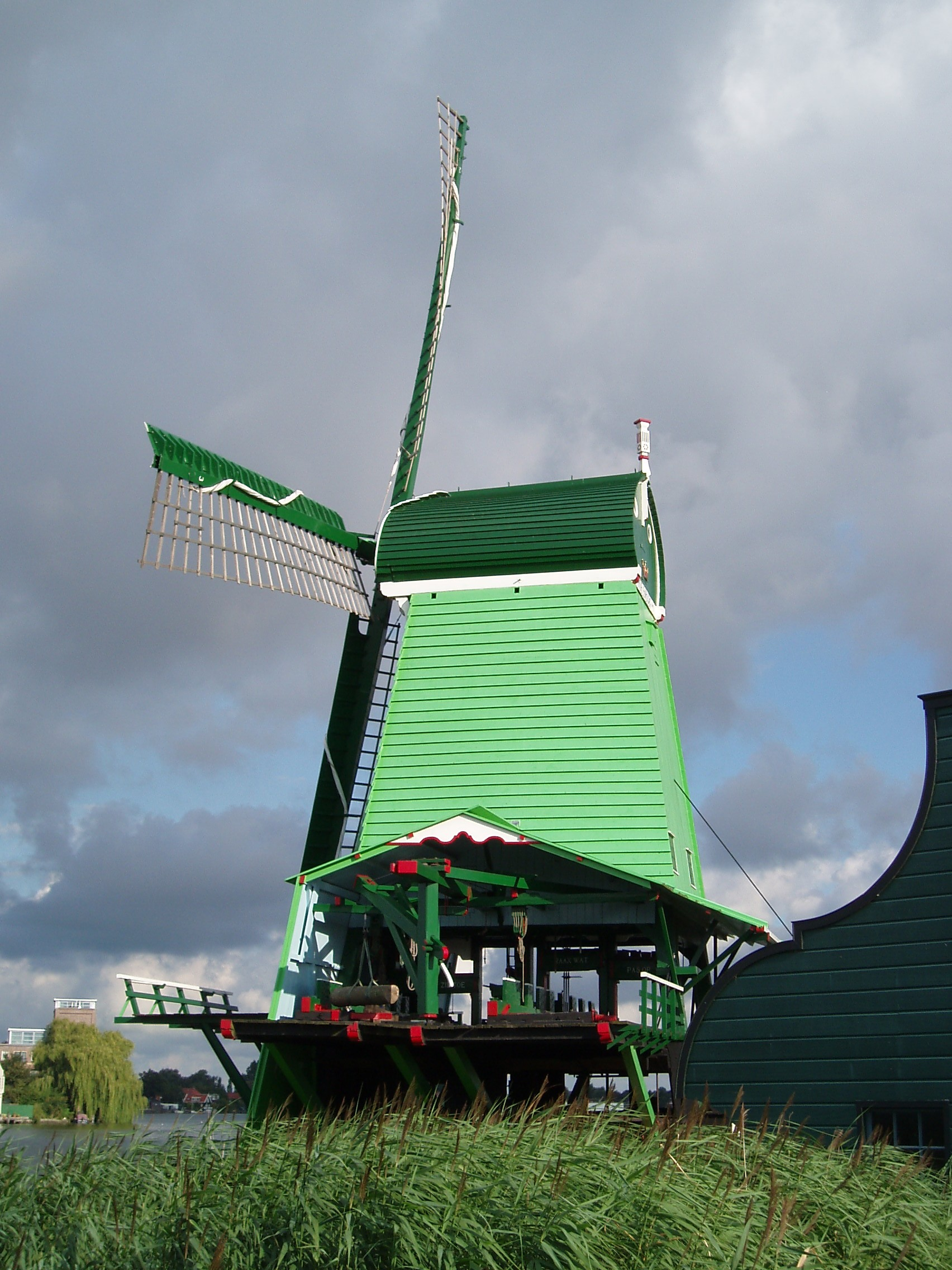 Windmills in village Zaanse Schans in the municipality of Zaanstad in the Netherlands, in the province of North Holland.